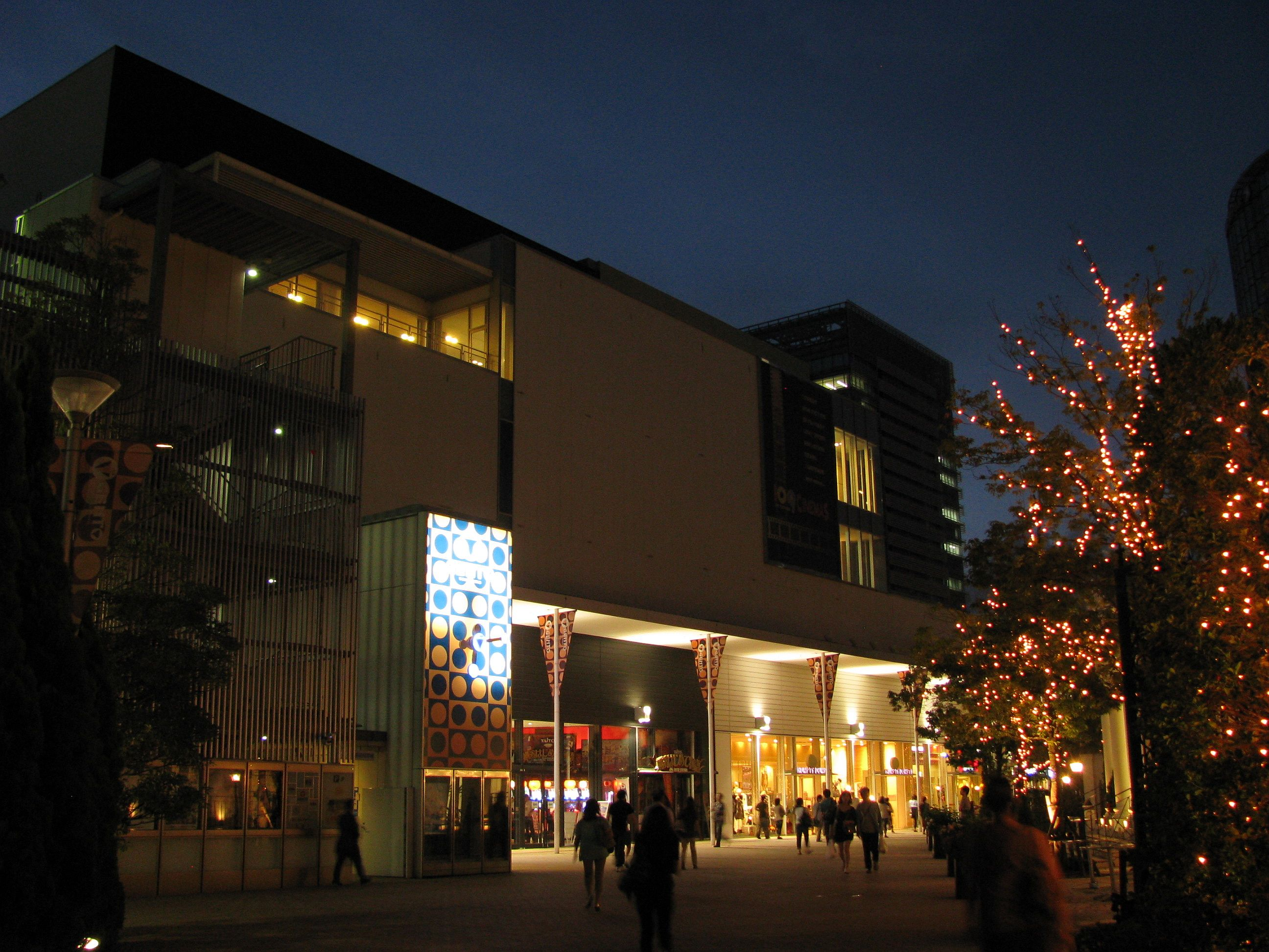 The GENTO YOKOHAMA. This place is Minato Mirai in Nishi-ku, Yokohama, Kanagawa Prefecture, Japan.